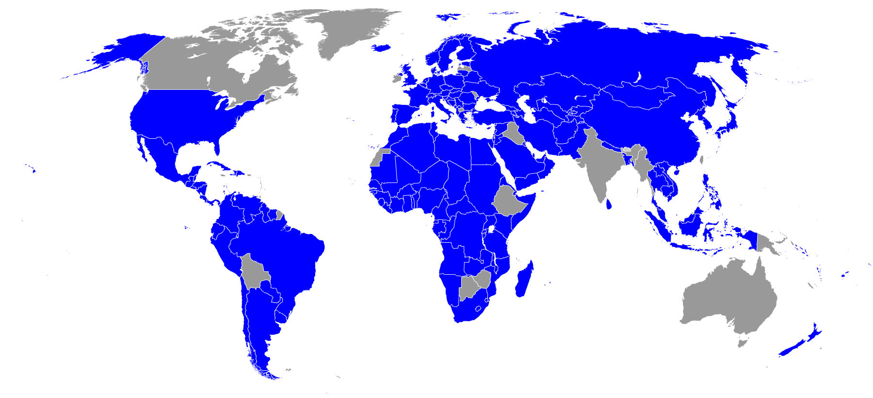 BIE Member States as of March 2018